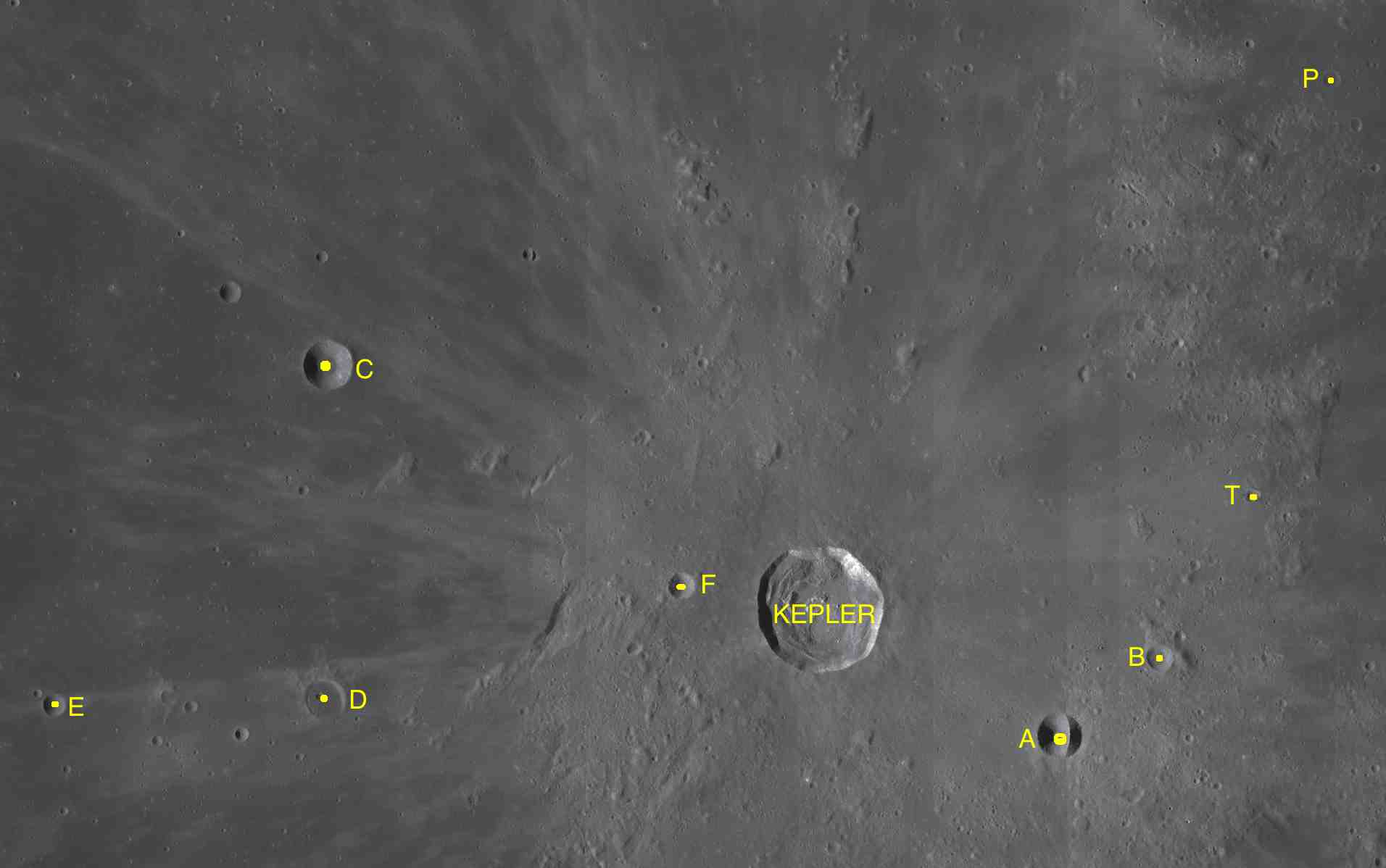 Part of the chart LAC-57 used for the presentation